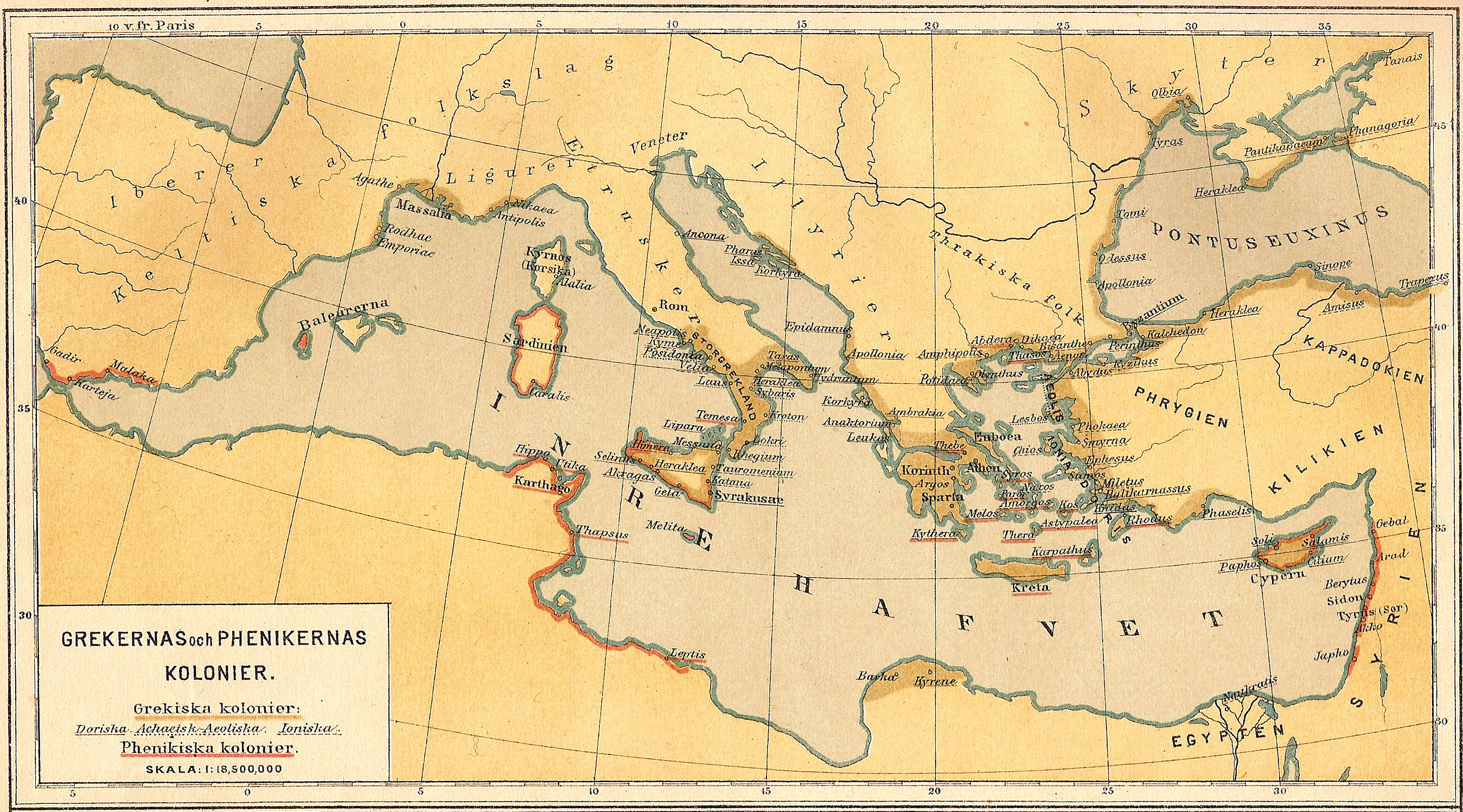 Map over fenician and greek colonies (in swedish).